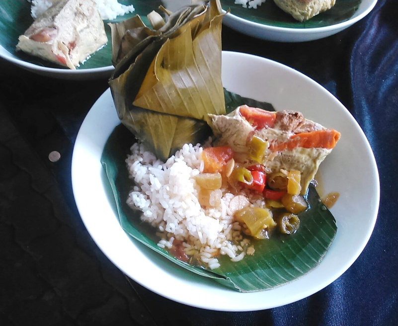 A service variation of garang asem, Central Java.